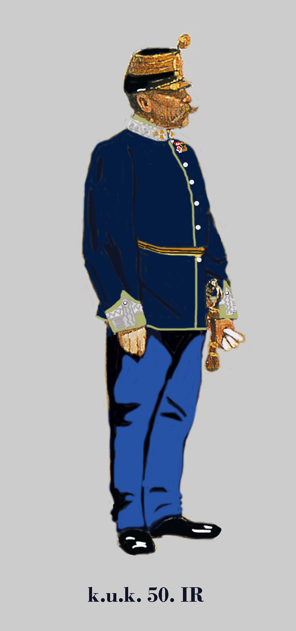 Colonel of the Austria-Hungarian (k.u.k.). 50th hungarian Infantry Regiment in Parade dress 1914